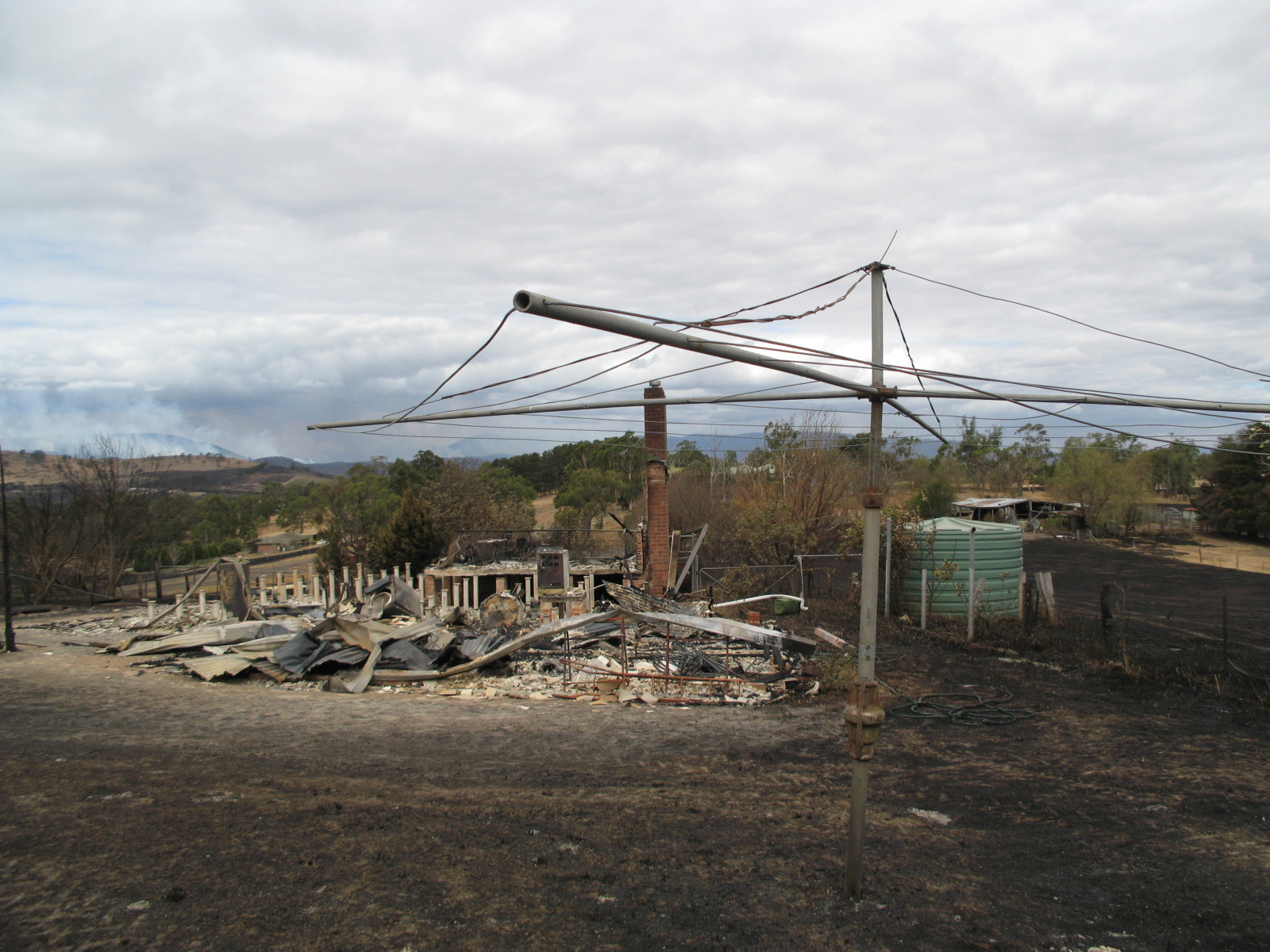 A house damaged by bushfires in the Kinglake complex, in Yarra Glen. Photo taken by myself with verbal permission of the owner, February 10 2009.